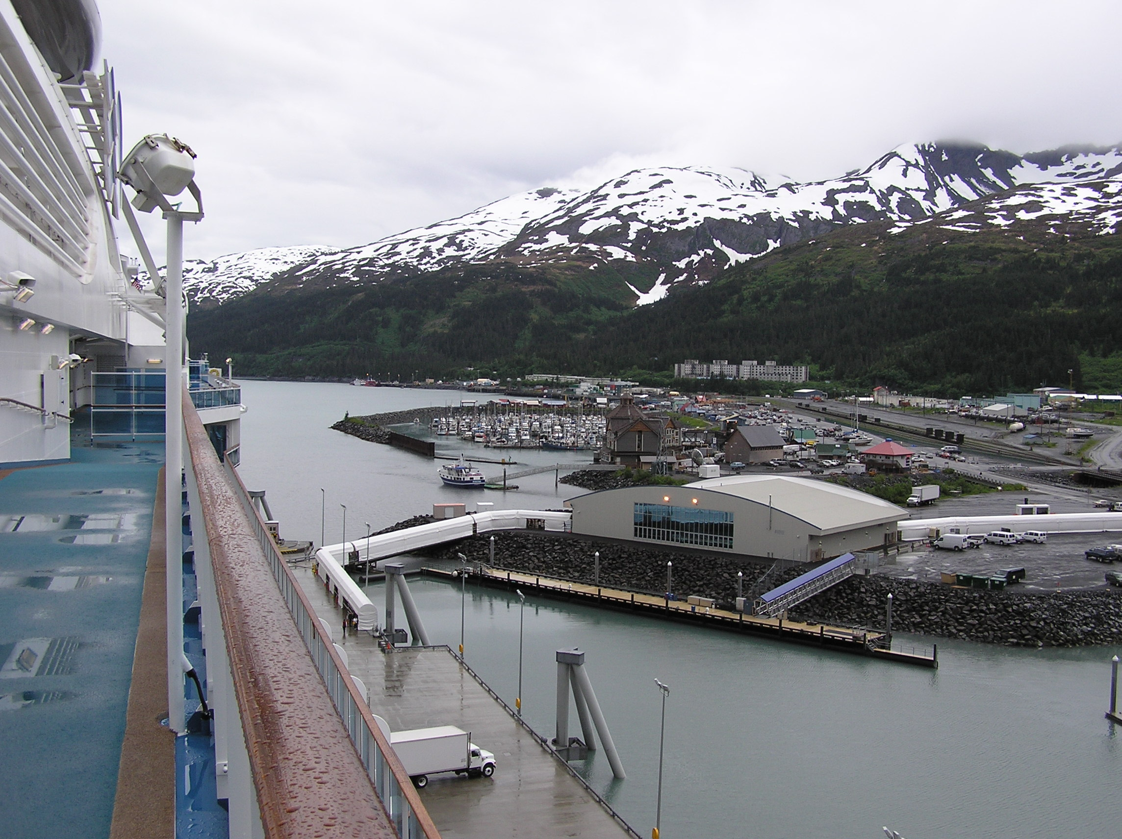 A pictuer of Whitter Alaska from the deck of the cruse ship, Island Princess.